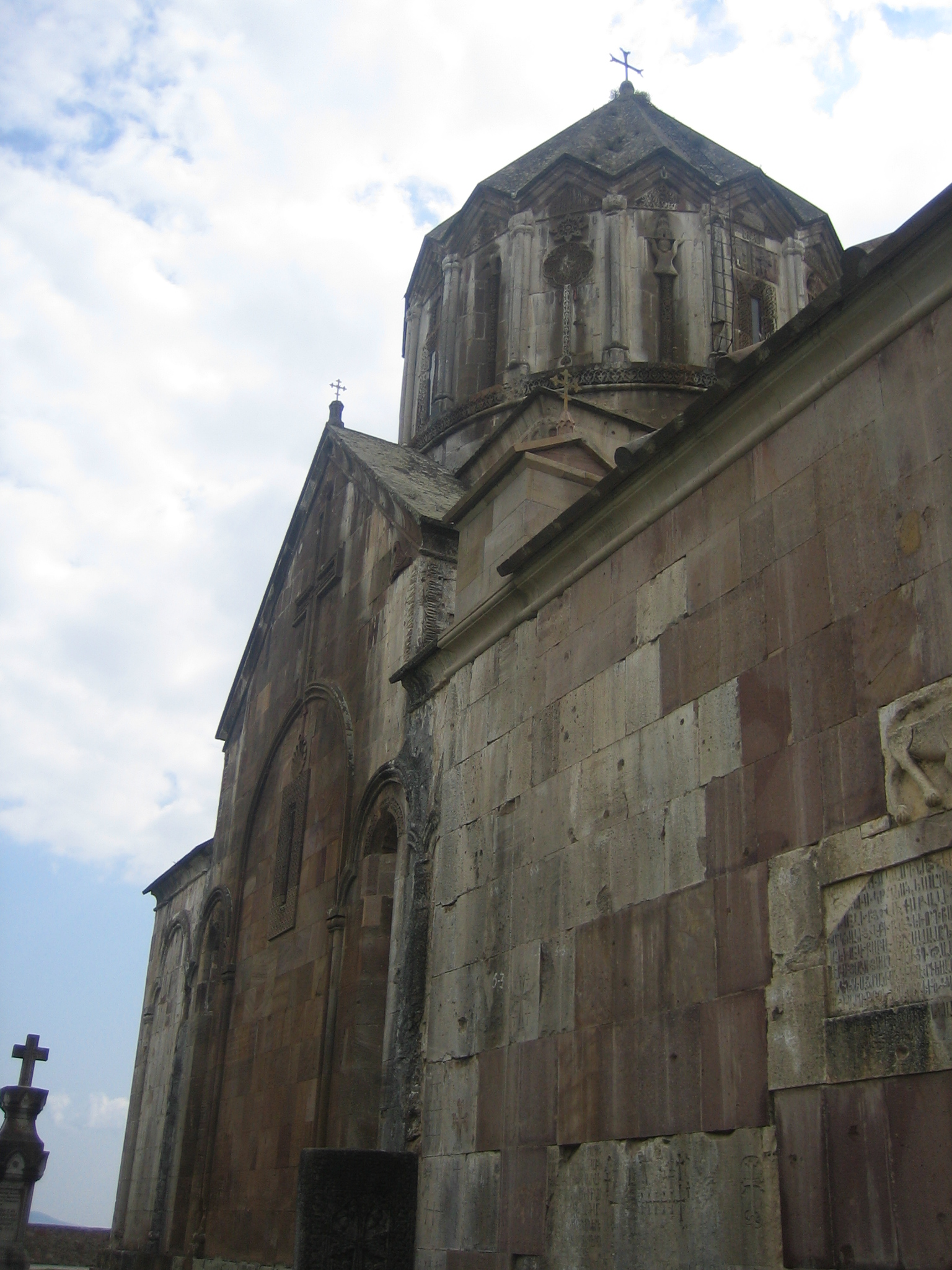 church in Azerbaijan You are free to use this picture in anyway.